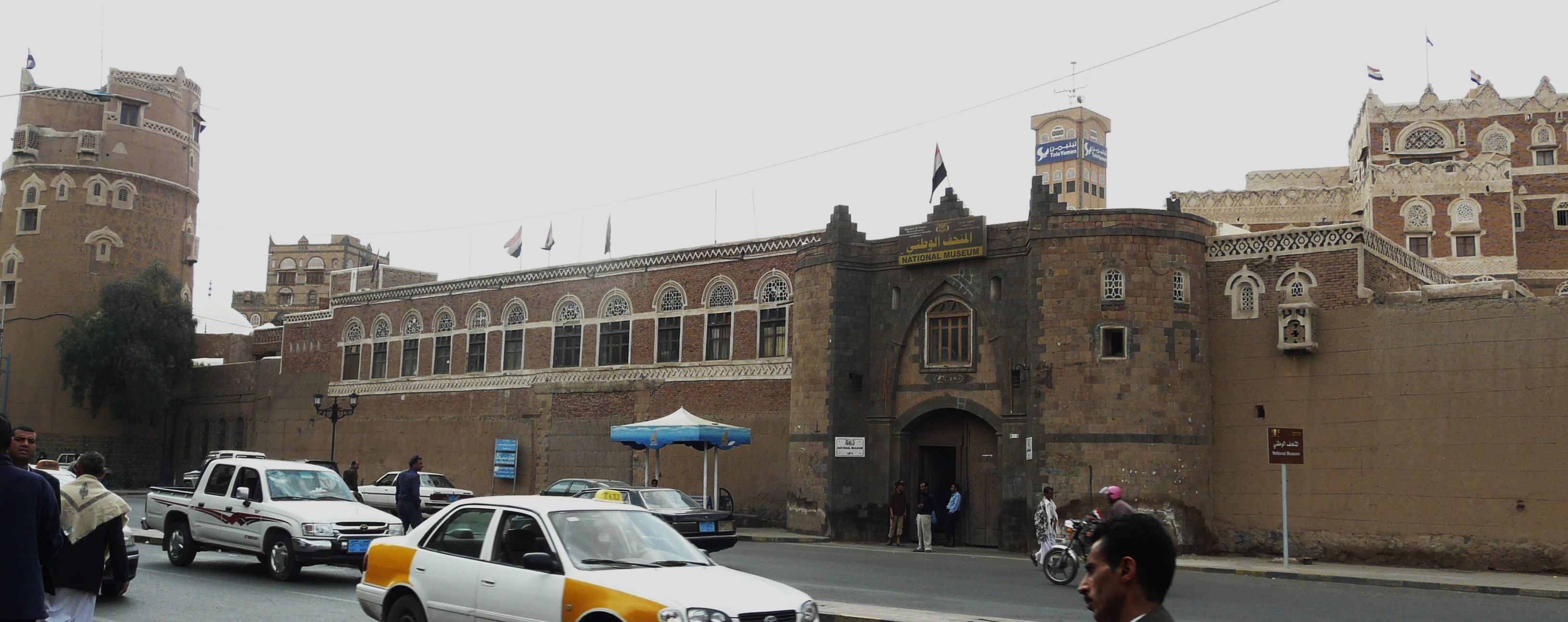 The National museum of Yemen (new place in Sana'a).